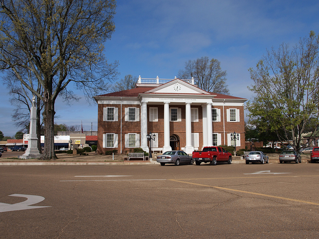 The Tallahatchie County Courthouse in Charleston, Mississippi.